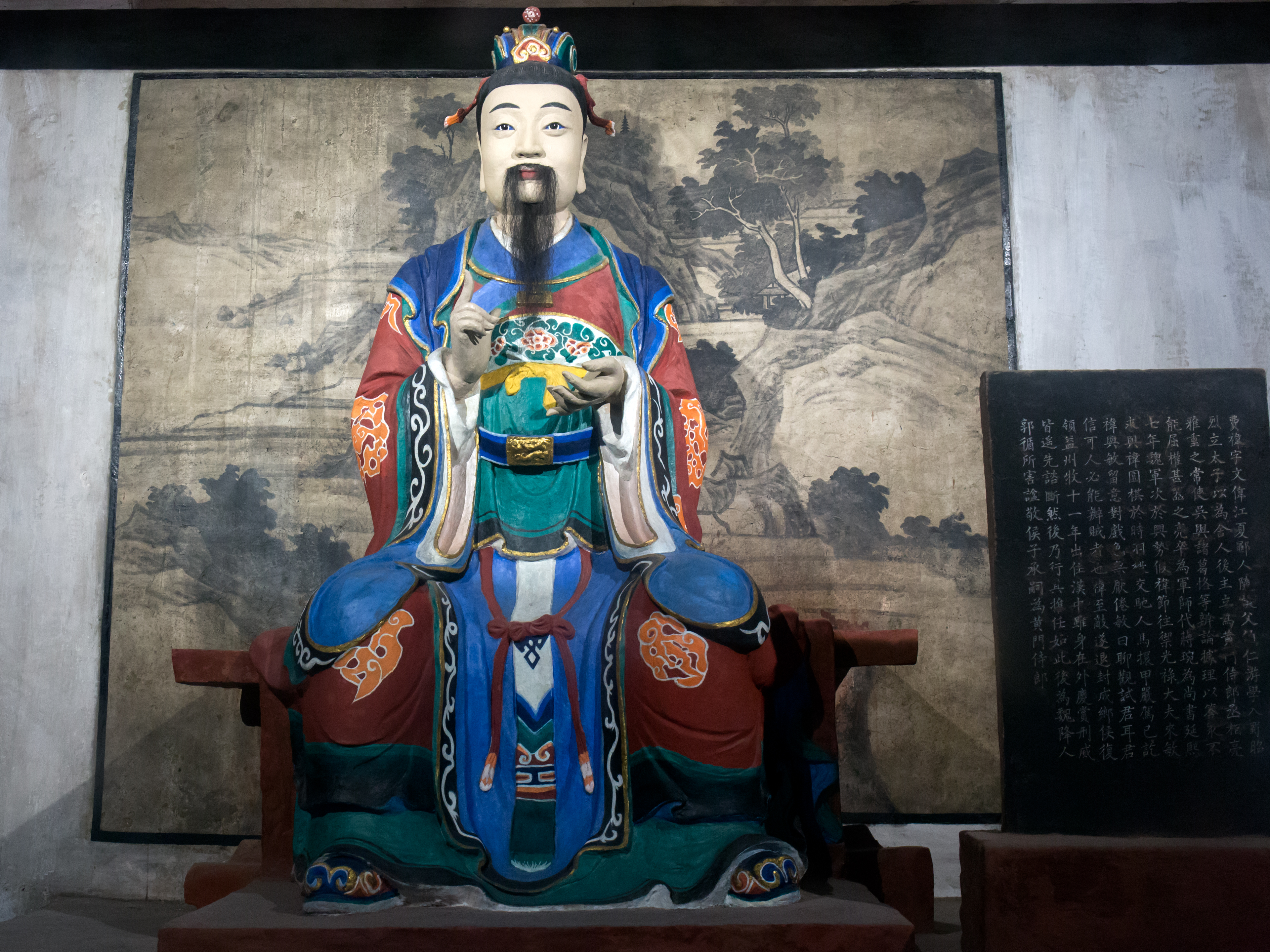 Fei Yi (費禕)